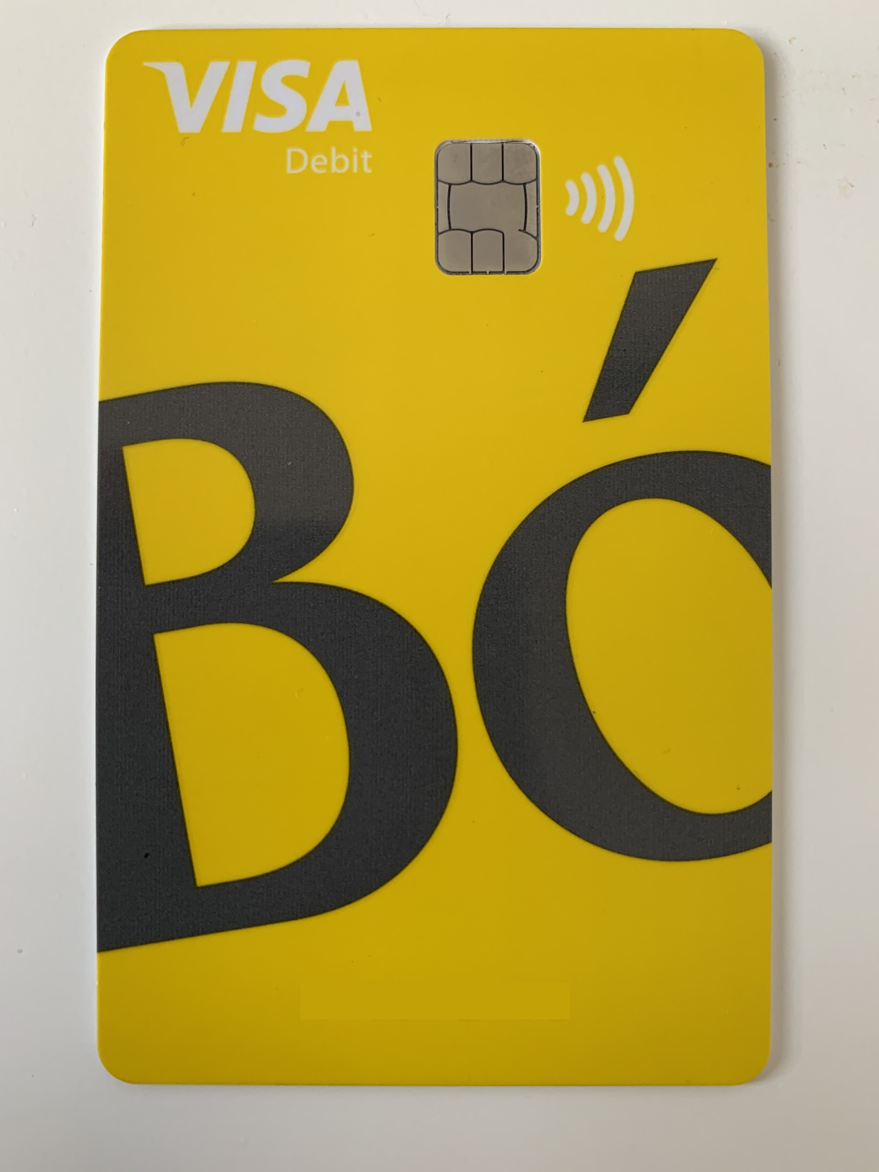 Debit card issued by the Bo digital bank